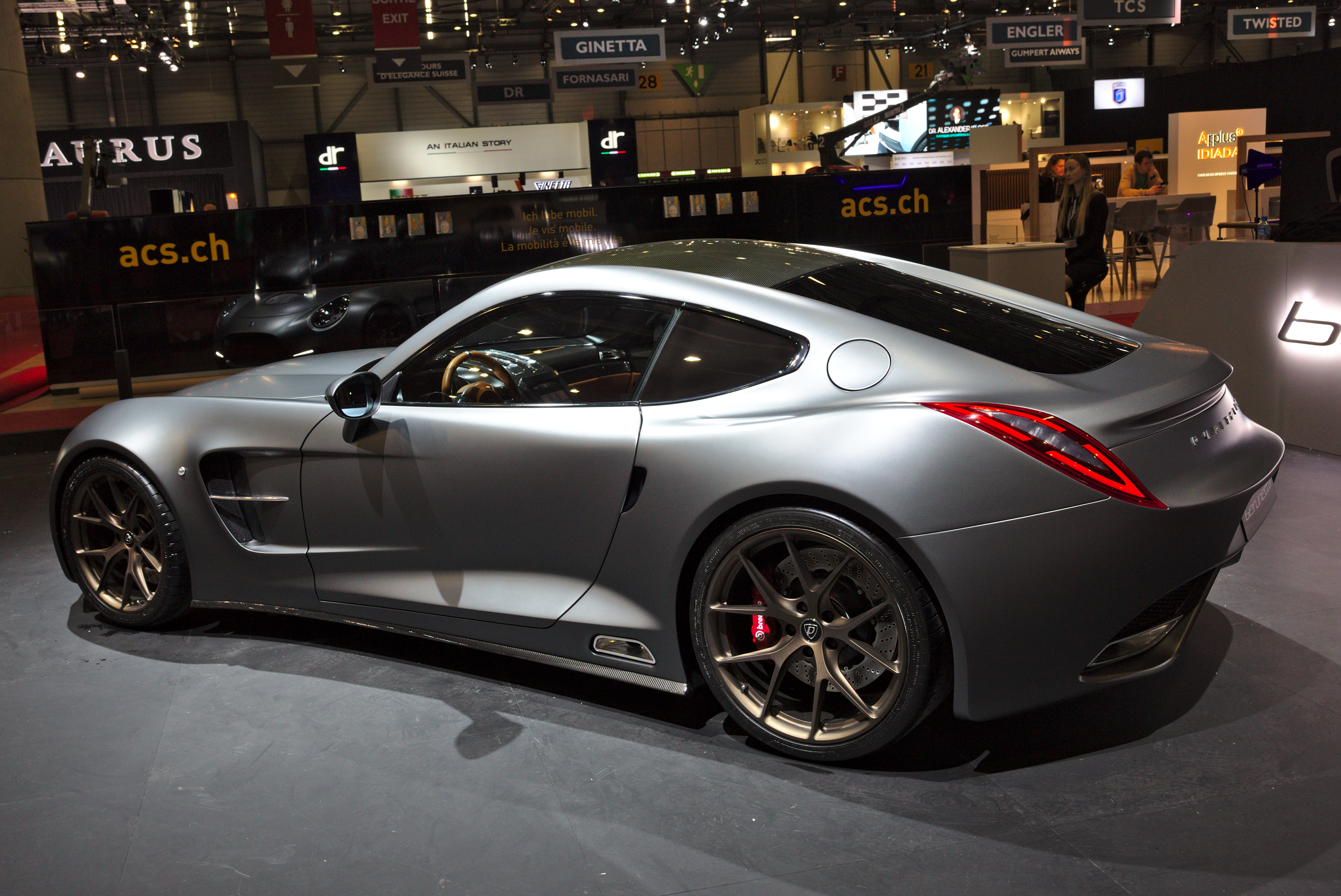 Puritalia Berlinetta at Geneva Motor Show 2019